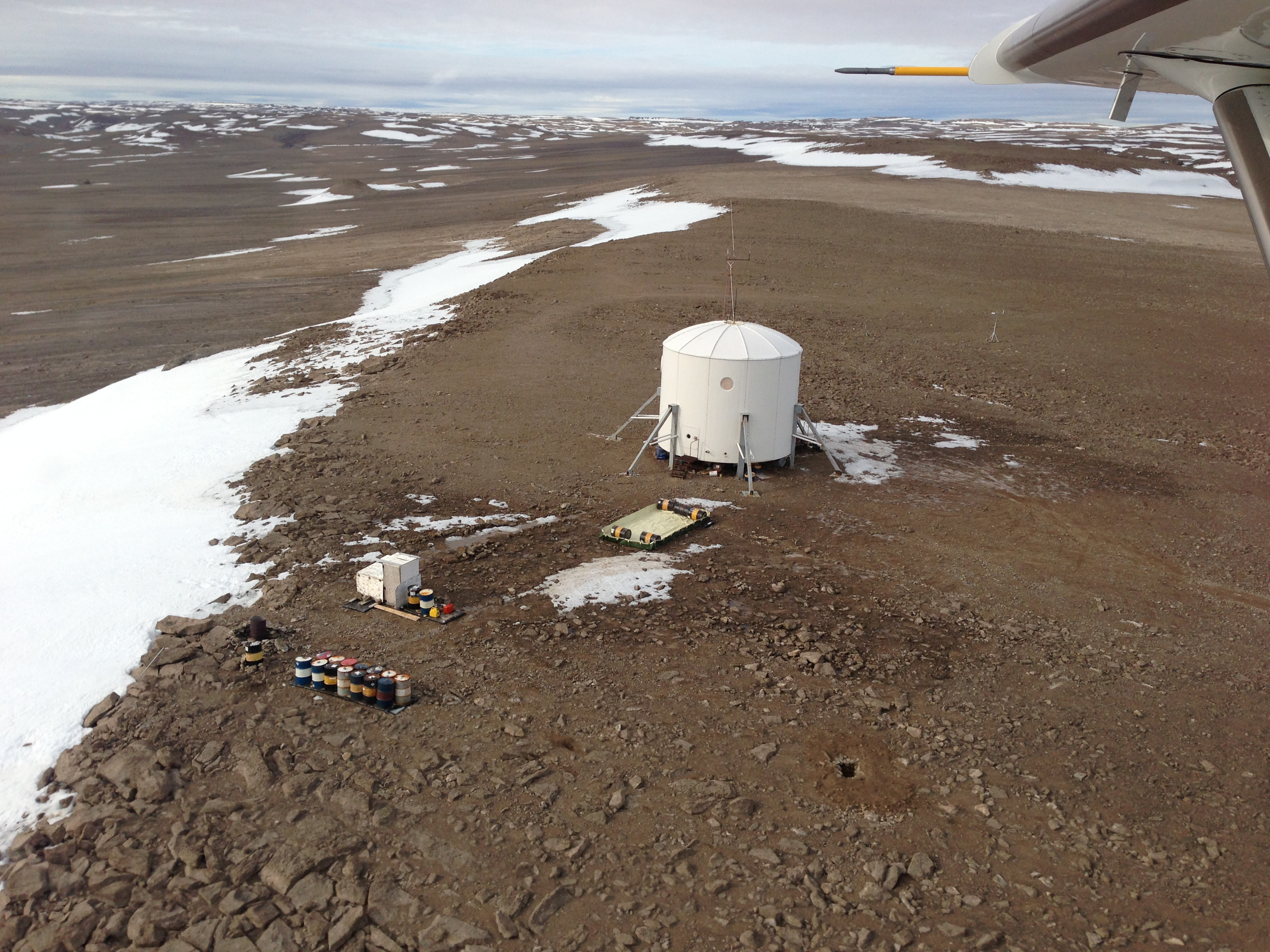 Photograph taken at the Flashline Mars Arctic Research Station (FMARS) on Devon Island, Canadian Arctic. Photo shows the station, as well as associated infrastructure. This includes a newly deployed Instaberm (secondary containment area for fuel storage), stored diesel fuel and gasoline, and the current generator shack.